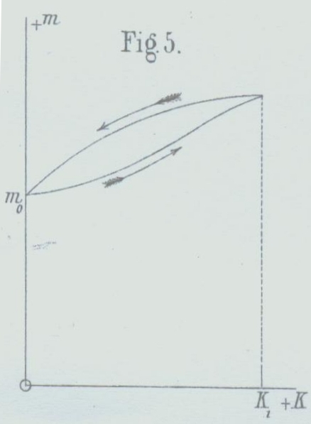 Figure of the first scientific publication about the magnetic hysteresis by Emil Warburg, published in 1881.